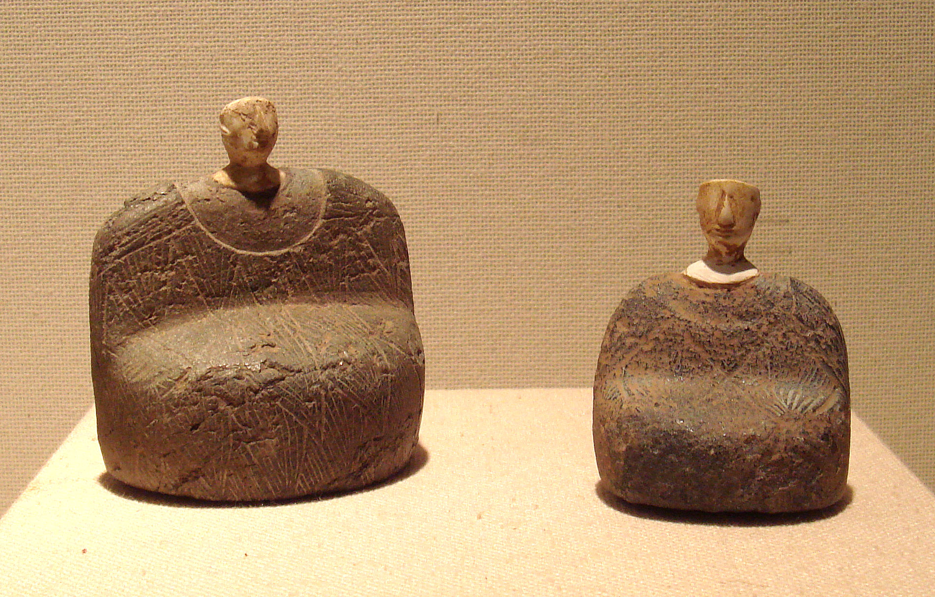 GodessesBactriaAfghanistan2000-1800BCE